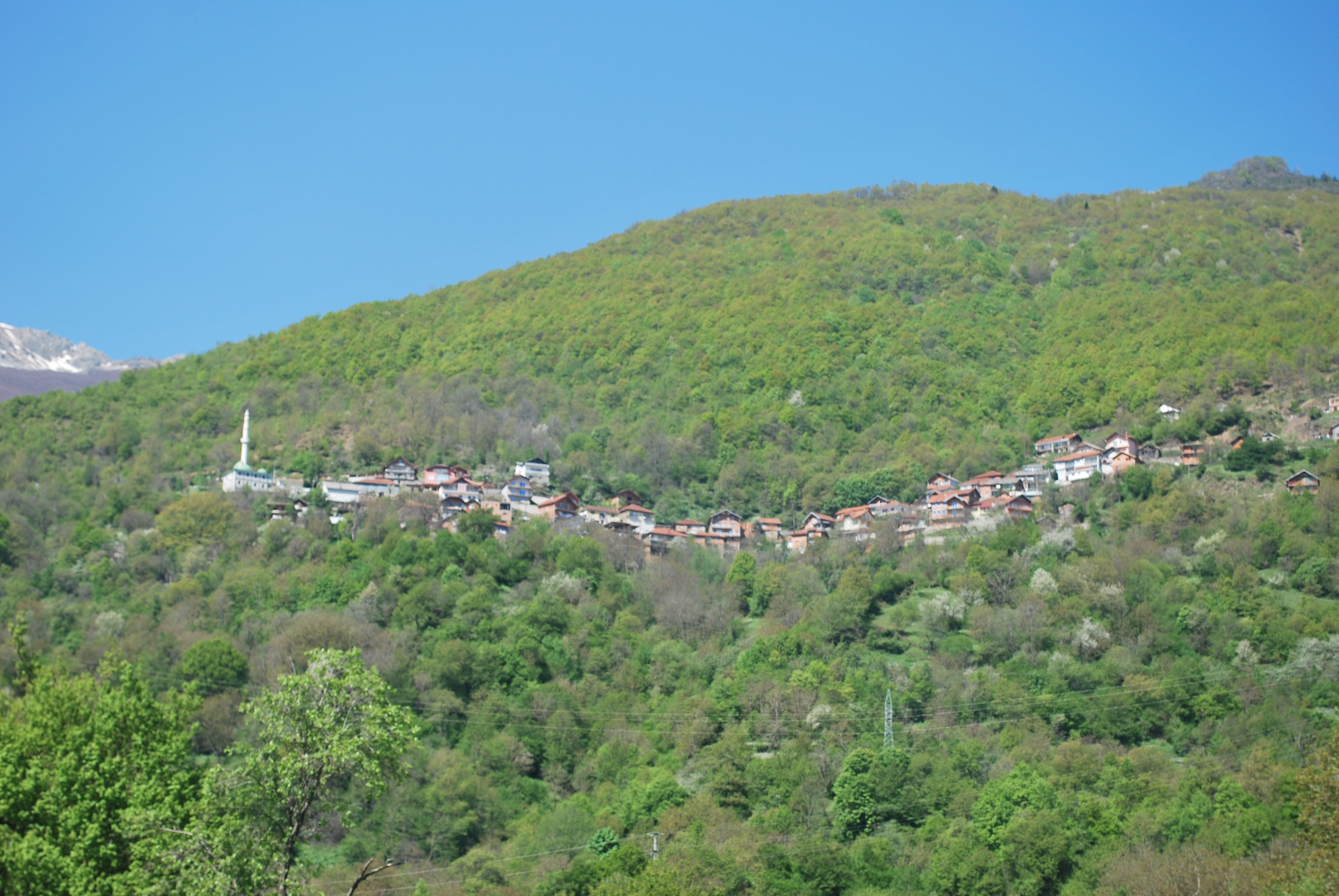 Village of Prisojnica, Macedonia